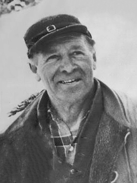 1960 Press Photo Ski jumper, Torbjorn Yggeseth with Olympic's Birger Torrissen